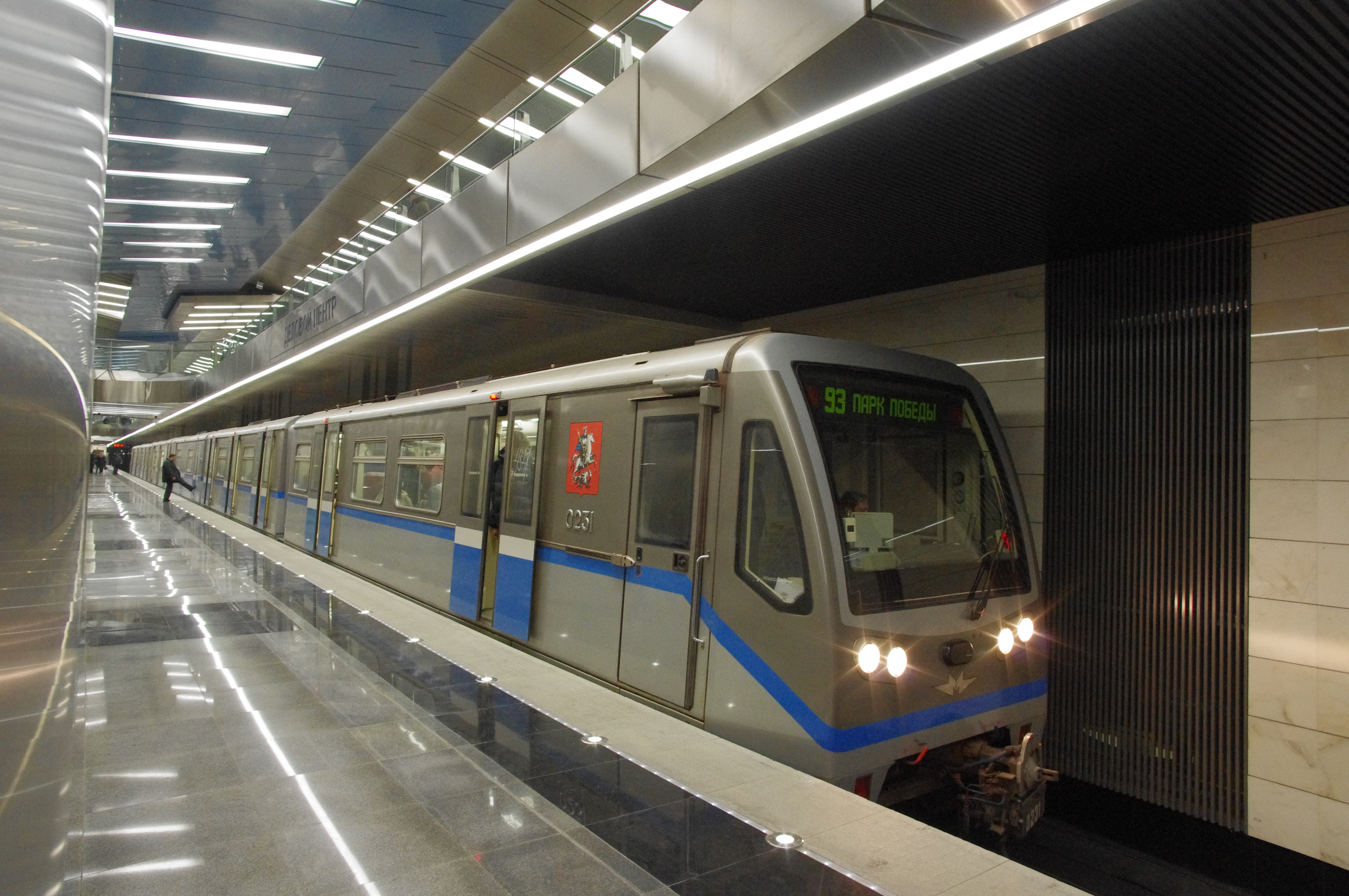 31.01.2014 - opening day of Delovoi Center station of Kalininskaya line of Moscow metro.